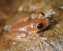 The Australian Lace-lid (Nyctimystes dayi) of northern Australia.